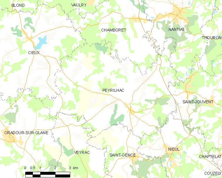 Map of French municipality Peyrilhac